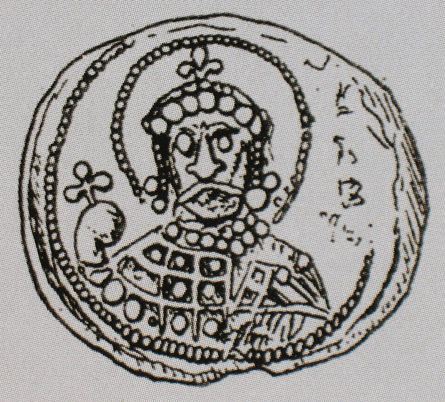 Russian kneze Sviatopolk I of Kiev seal. Печать князя Святополка Ярополчича (Владимировича) Окаянного, брата Ярослава Владимировича Мудрого. Ярополчич он потому, что Владимир Великий "поял" его мать беременной от князя Ярополка; получилось "дите двух отцов".